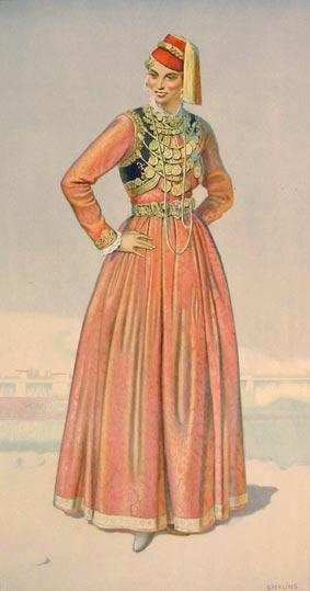 Greek Macedonian Woman's Town Dress (Macedonia, Kastoria) - Greek Costume Collection by NICOLAS SPERLING (Russia 1881-1940 / act: Athens).